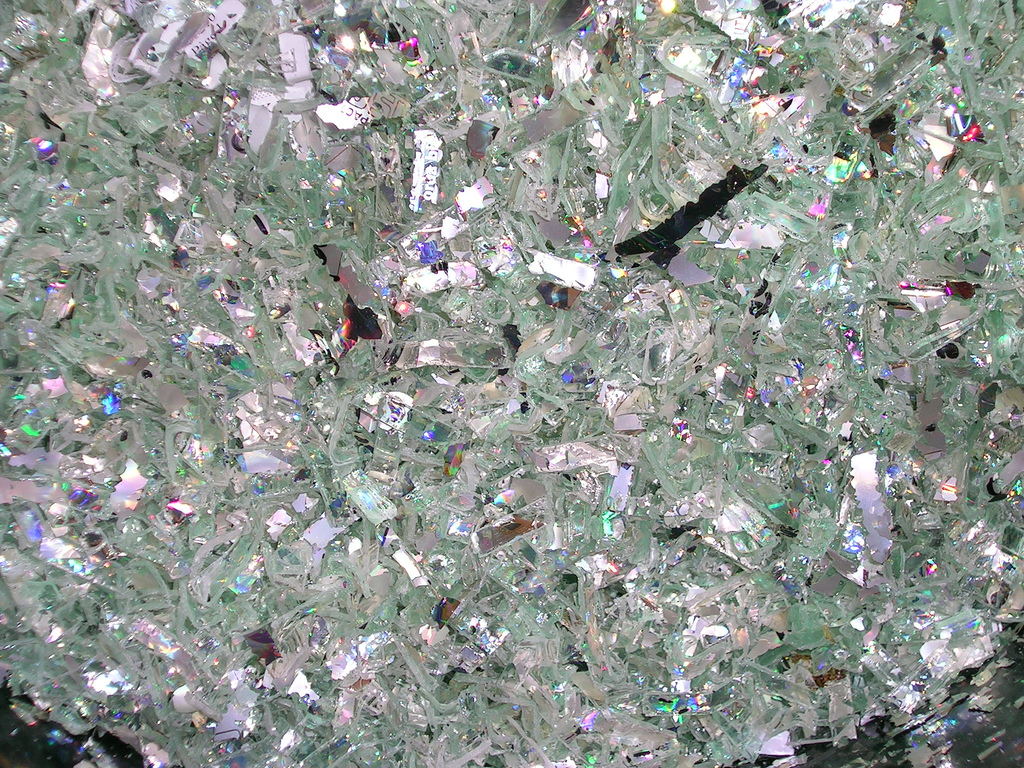 The "Media Destroyer" lives up to its name.